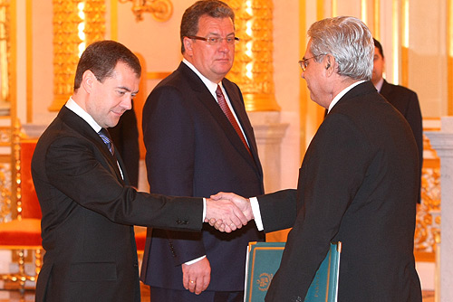 THE KREMLIN, MOSCOW. Presentation ceremony of foreign ambassadors’ letters of credentials. Ambassador of the Islamic Republic of Pakistan Mohammad Khalid Khattak presents his letter of credentials to the President of Russia.